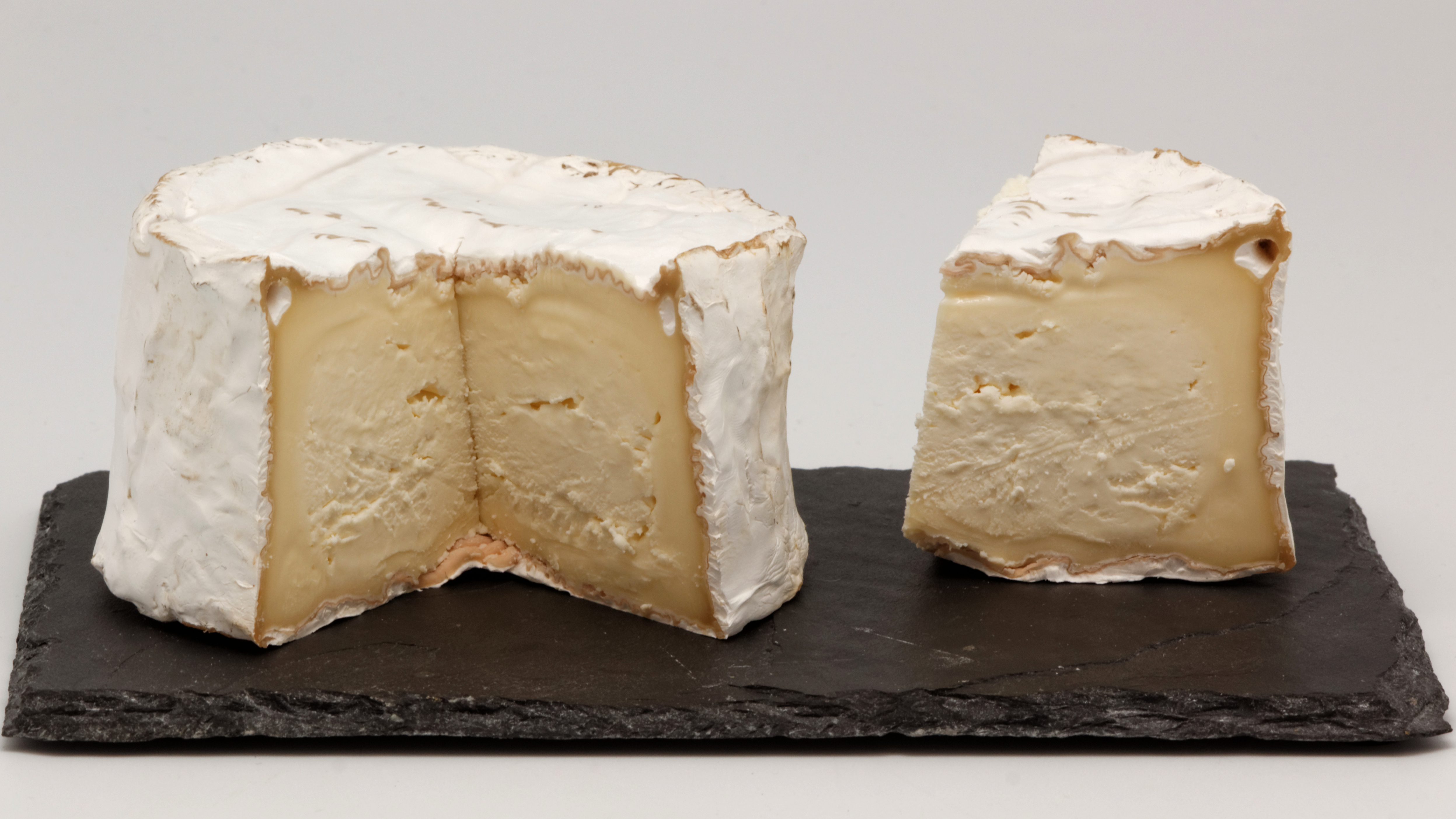 Chaource